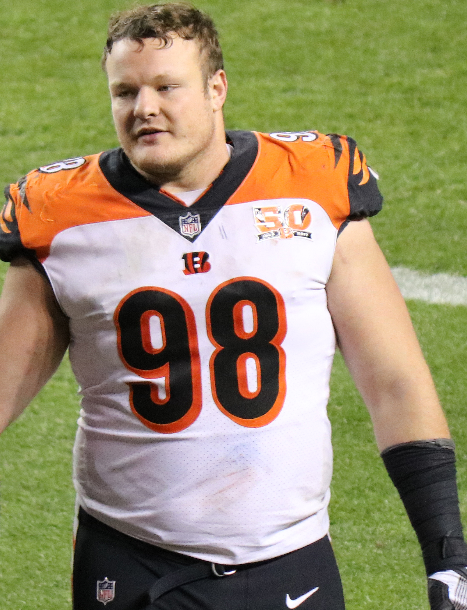 Ryan Glasgow, a National Football League player.